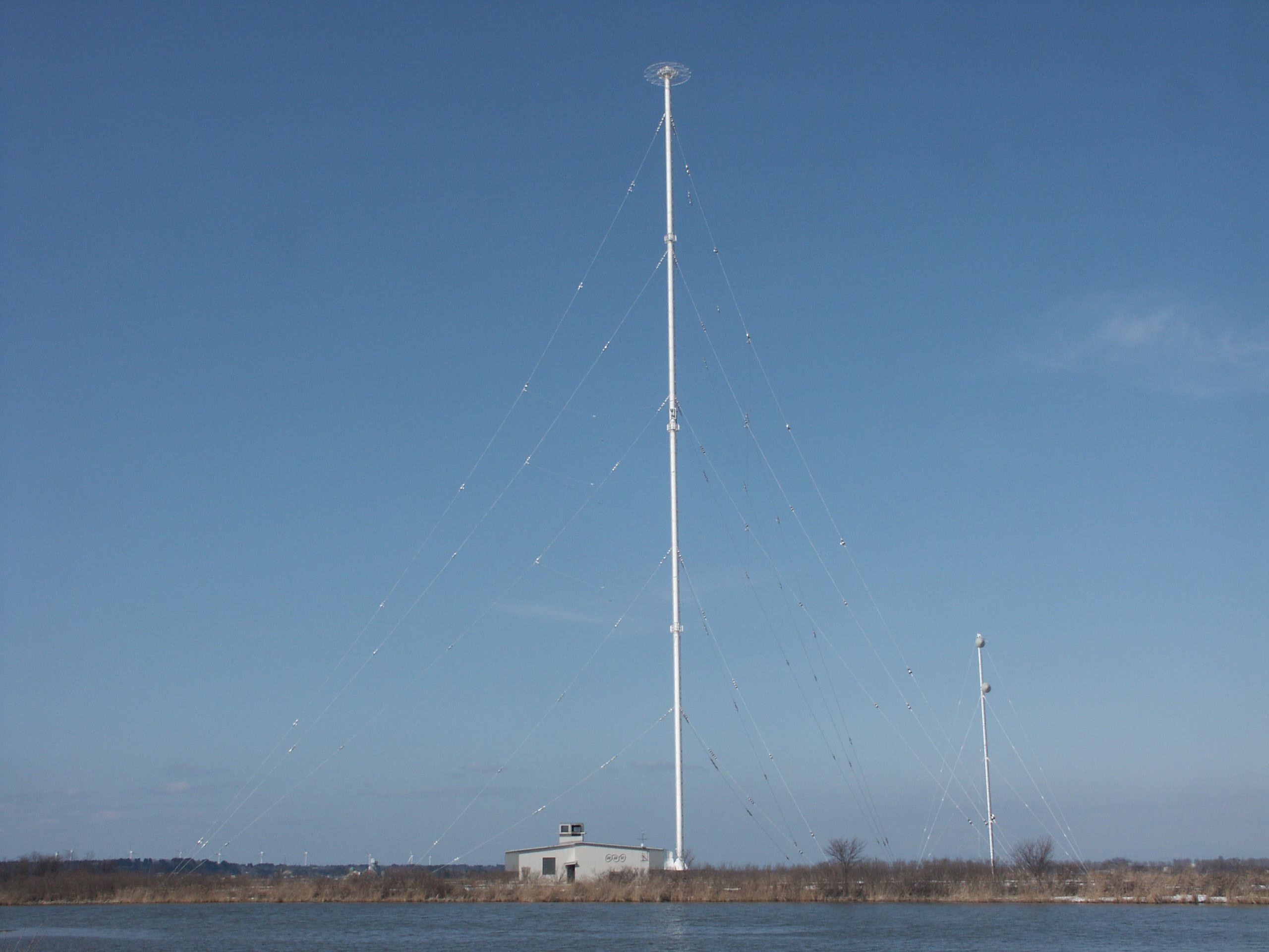 NHK Ogata Radio Transmitting Station in Ogata, Akita prefecture (NHK Radio 2:JOUB 774kHz 500kW)